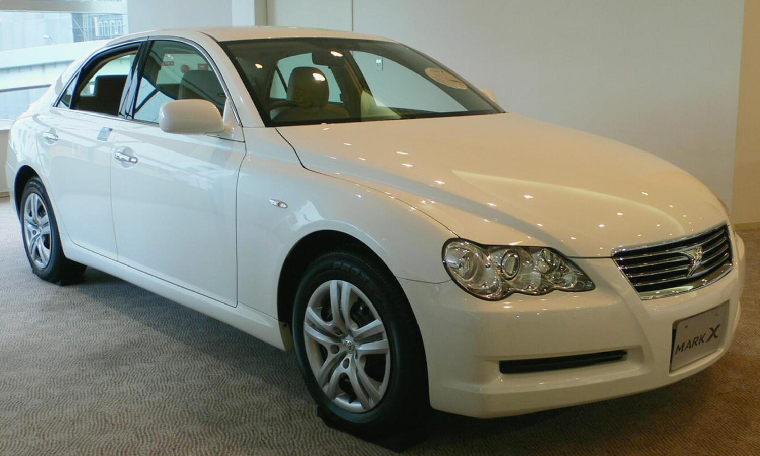 1st generation Toyota Mark X (2004/11 - 2006/10)